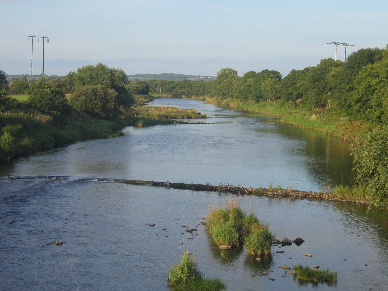 River Feale as seen in Summer 2005 at Finuge crossing linking Finuge to Killocrim, near Listowel, Kerry, Ireland.